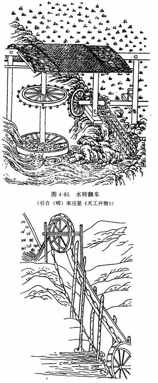 Two illustrations of Chinese hydraulic-powered chain pumps. The top illustration shows a horizontal waterwheel acting upon a horizontal and vertical wheel and axle that rotates a square-pallet chain pump bringing water from a stream up to the irrigation canal. The bottom illustration shows a vertical waterwheel as part of a cylinder-wheel chain pump bringing water up from a river to an irrigation canal of a crop field. These illustrations were printed in the Tiangong Kaiwu encyclopedia of 1637, written by the Ming Dynasty encyclopedist Song Yingxing (1587-1666). They can be found on pages 15 and 18 of E-tu Zen Sun and Shiou-Chuan Sun's English translation of the Tiangong Kaiwu (Pennsylvania University State Press, 1966). This image was taken from